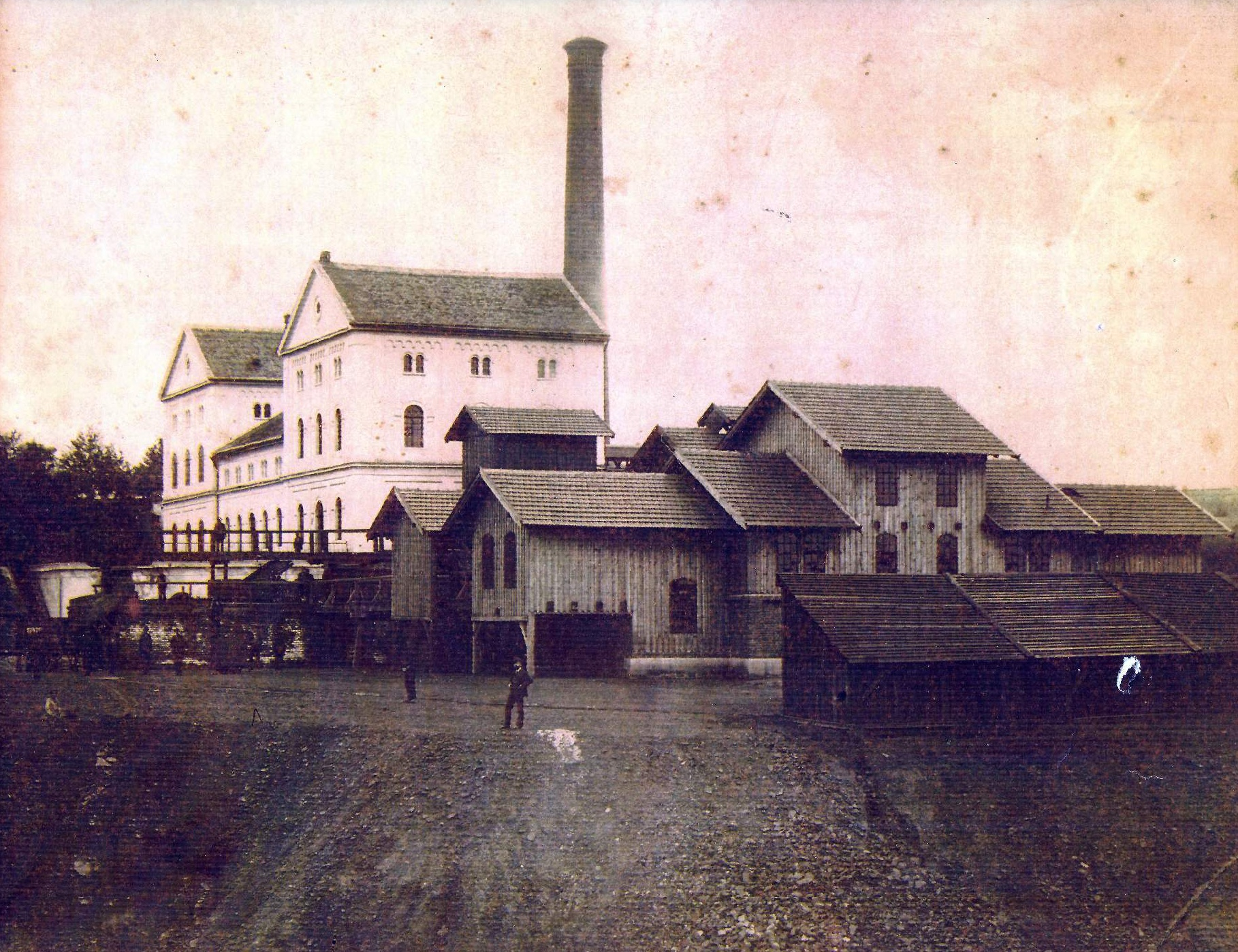 Jindřich Mine, Zbýšov, Czech Republic